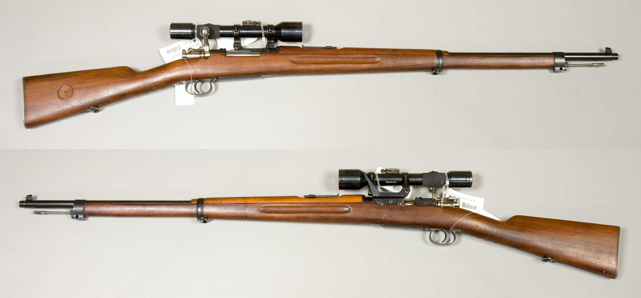 Swedish sniper rifle Model 1941. Modified rifle Model 1896 (Swedish Mauser). Caliber 6.5x55mm. From the collections of Armémuseum (Swedish Army Museum), Stockholm.